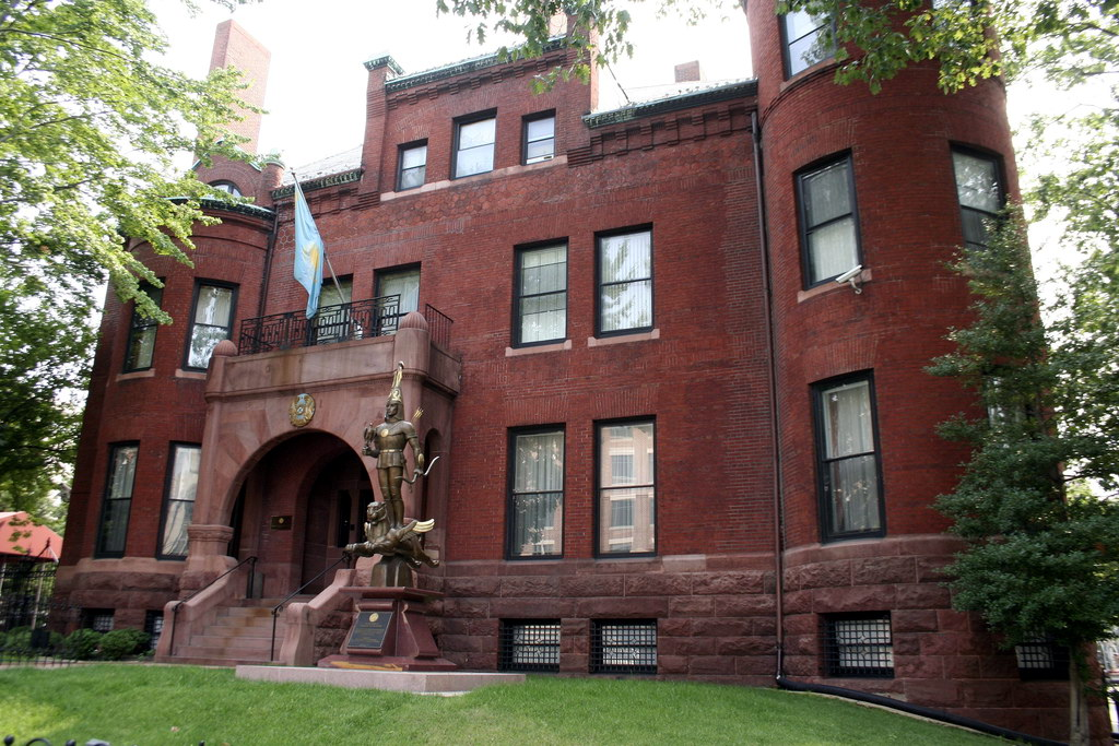 "Monument of Independence of Kazakhstan" . Embassy of Kazakhstan . . 1401 16th Street, NW, WDC . Tuesday afternoon, 07 August 2007 . Elvert Xavier Barnes Photography See 28 September 2006 Embassy of Kazakhstan Press Release at